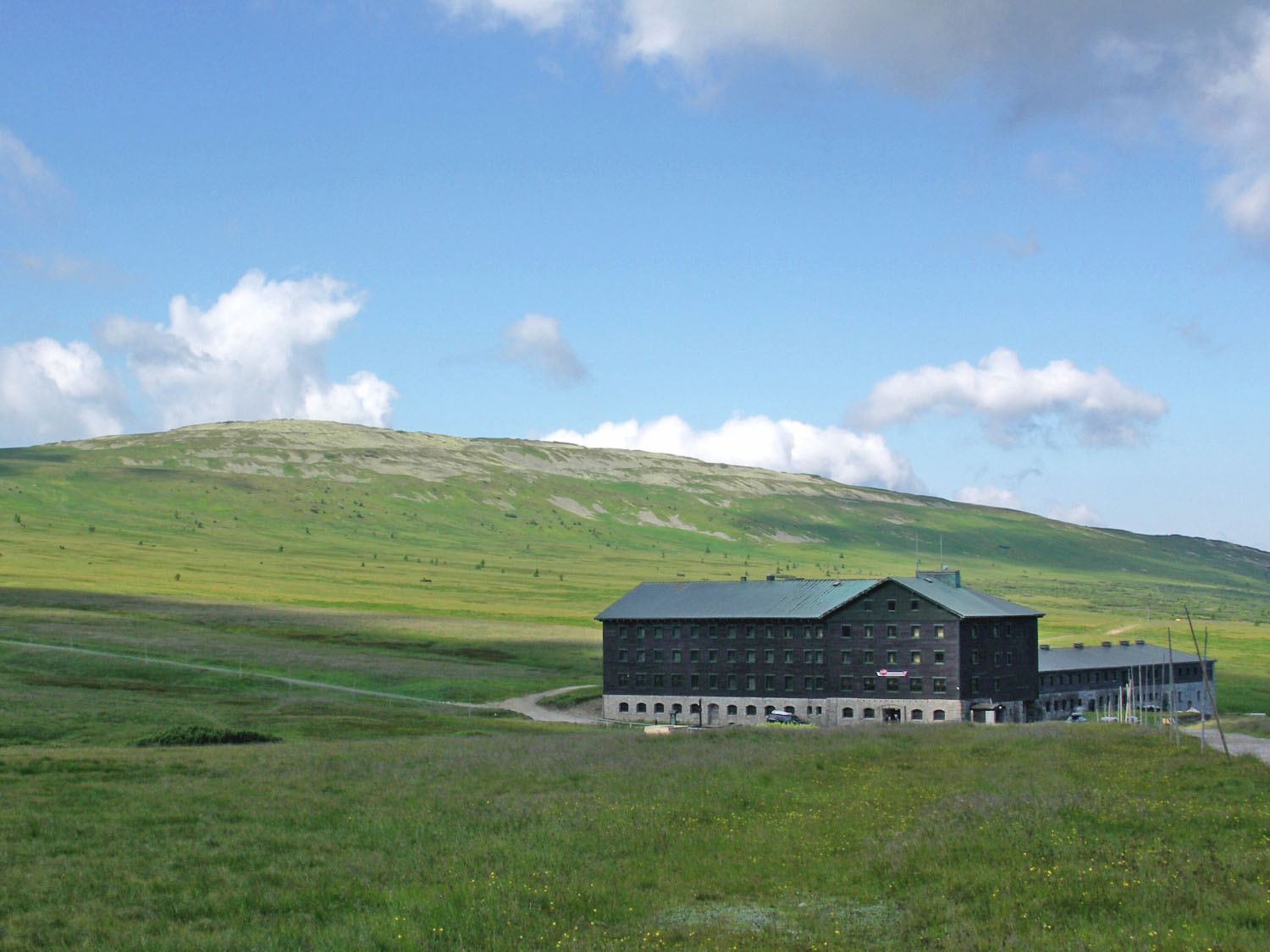 The mountain Luční hora in the Krkonoše Mts., Czech republic